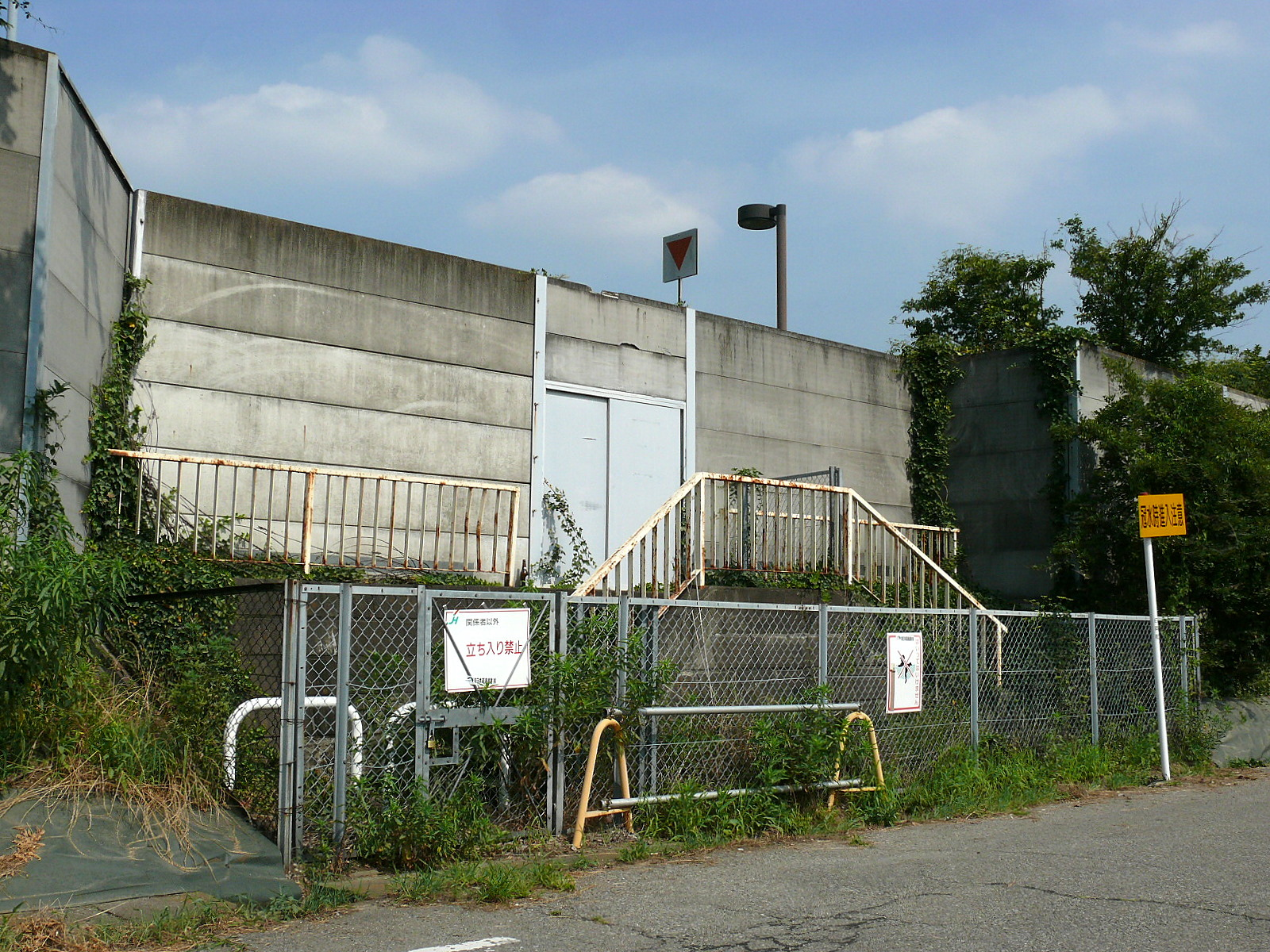 Tohoku Expressway Shiraoka Bus stop West side.